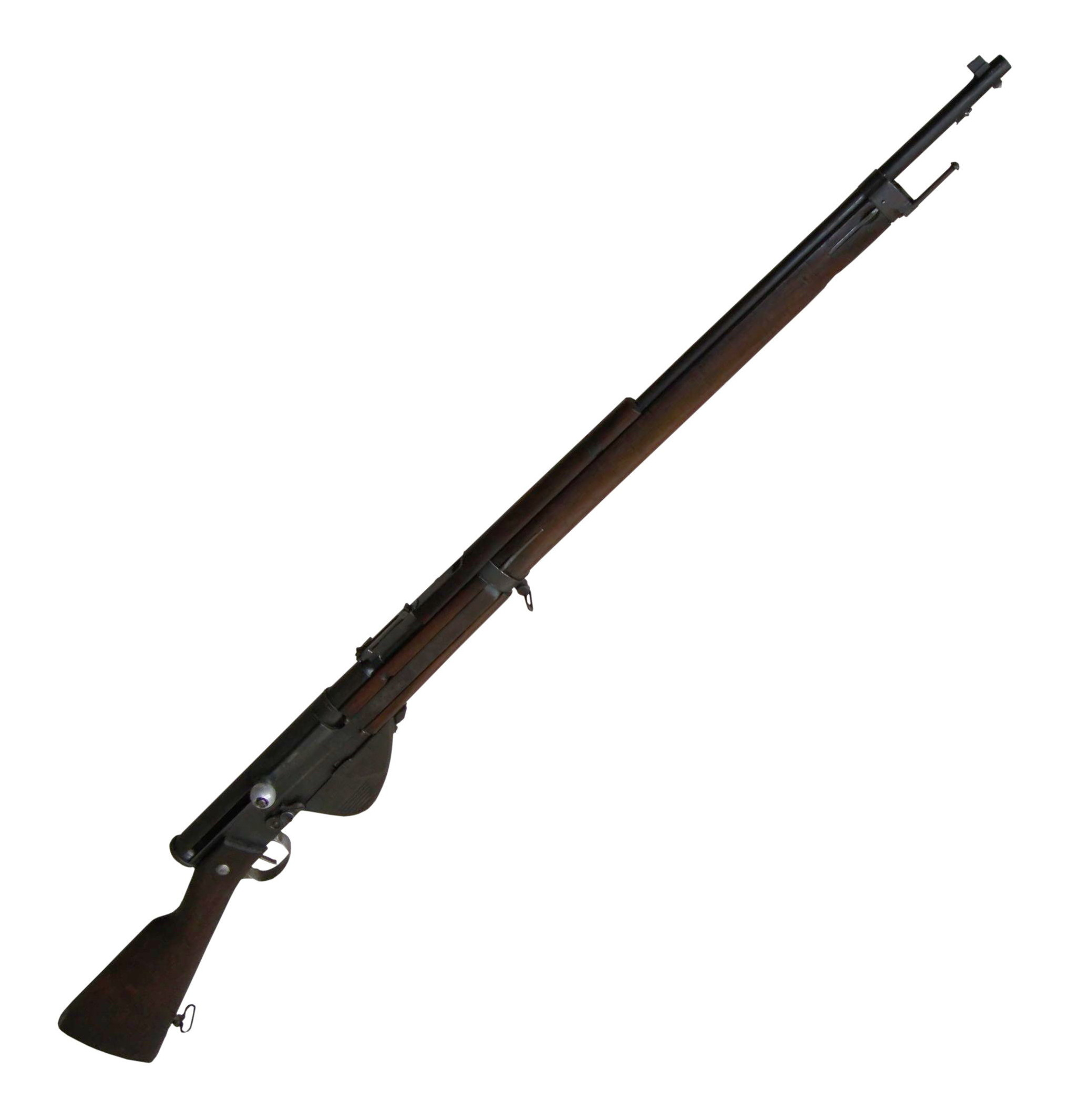 French semi automatic rifle model of 1917, aka FSA 1917, RSC 1917. The first semi automatic rifle that entered service on a large scale as general issue infantry rifle to replace the bolt action rifle at the end of WWI